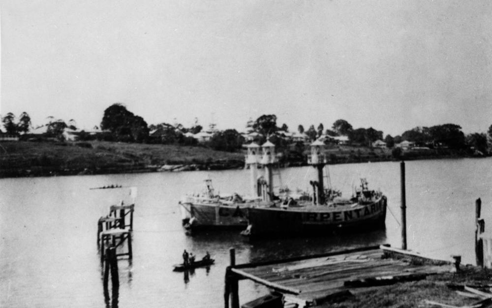 Carpentaria (ship)